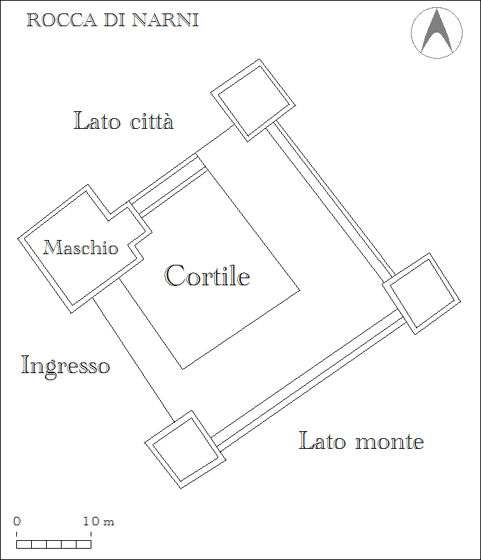 (ITA) Schema dall'alto della Rocca di Narni. (ENG) Scheme of the Fortress of Narni from the top